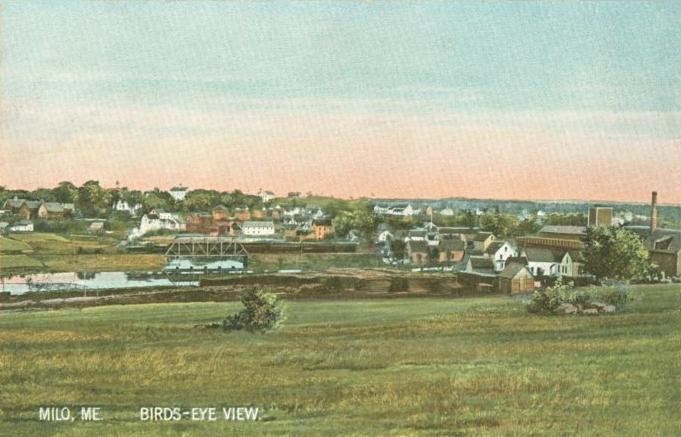 Bird's-eye View of Milo, ME; from a c. 1910 postcard.